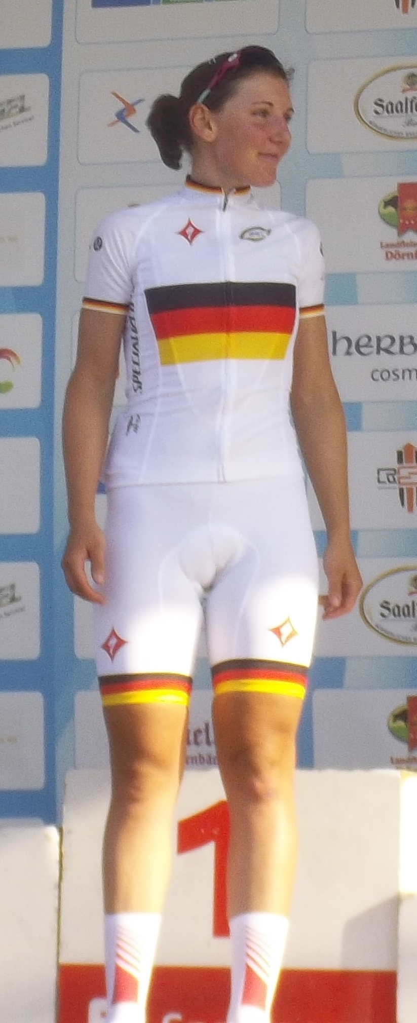 Lisa Brennauer at Thuringen Rundfahrt 2014, podium of stage 1.